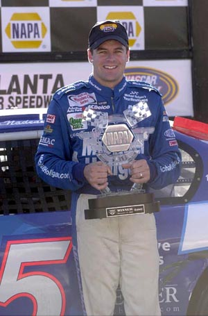 Atlanta, GA, November 20, 2000 -- Project Impact partner, driver Jerry Nadeau, with his first career NASCAR Winston Cup Series victory trophy in the season-ending NAPA 500 at Atlanta Motor Speedway. FEMA Photo/Kevin Thorne